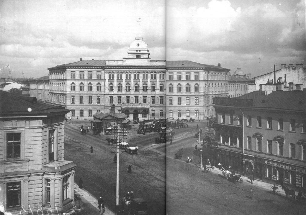 Horsetram stop near Tekhnologichesky institute